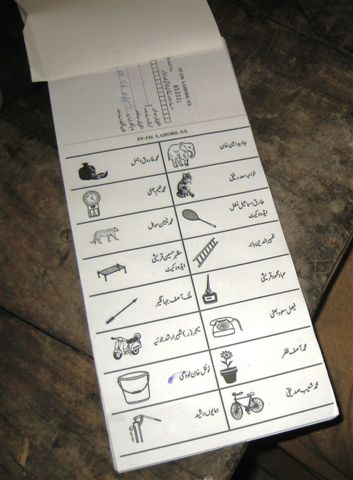 Ballot paper of the 2008 elections in Pakistan